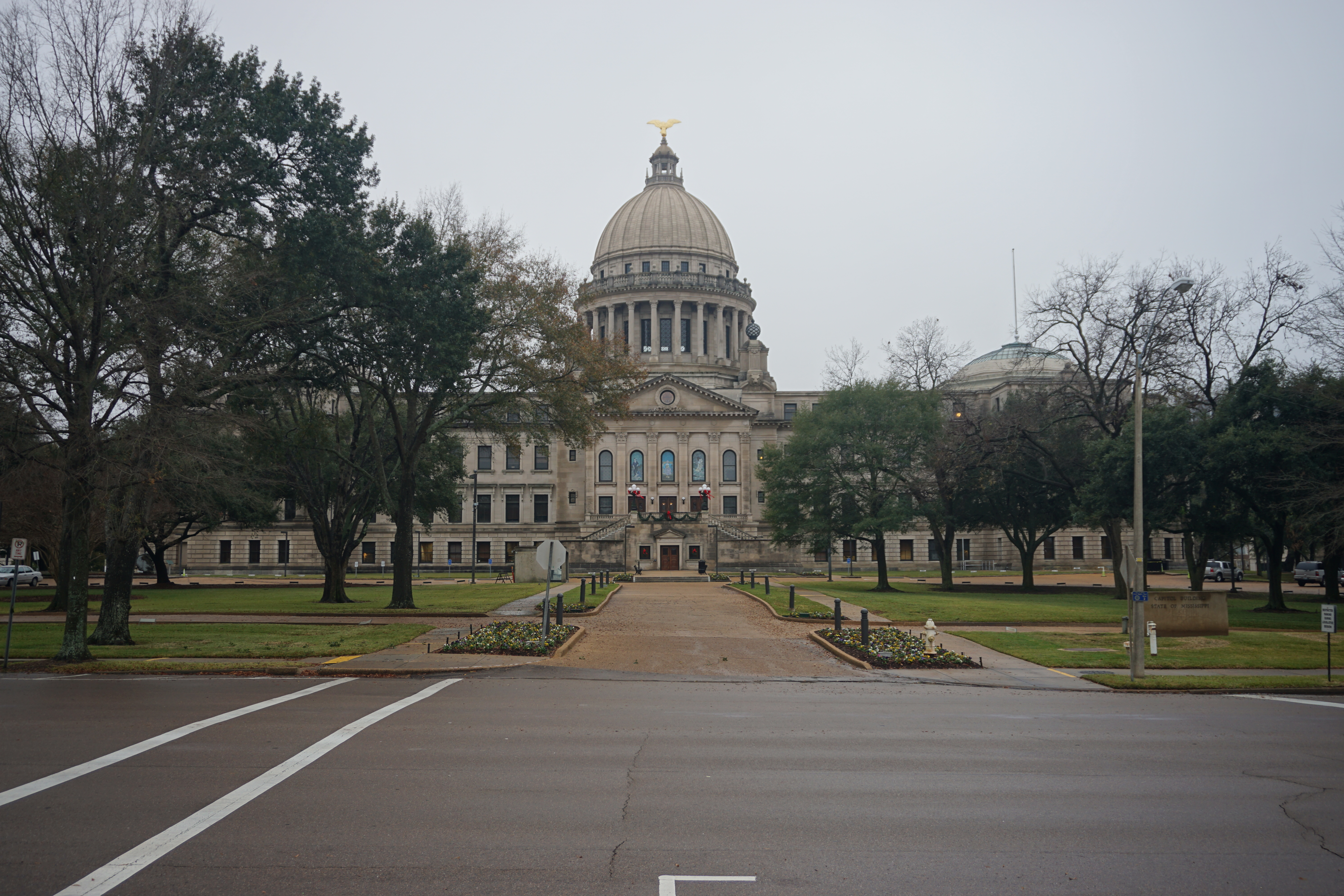 The Mississippi State Capitol in Jackson, Mississippi (United States).